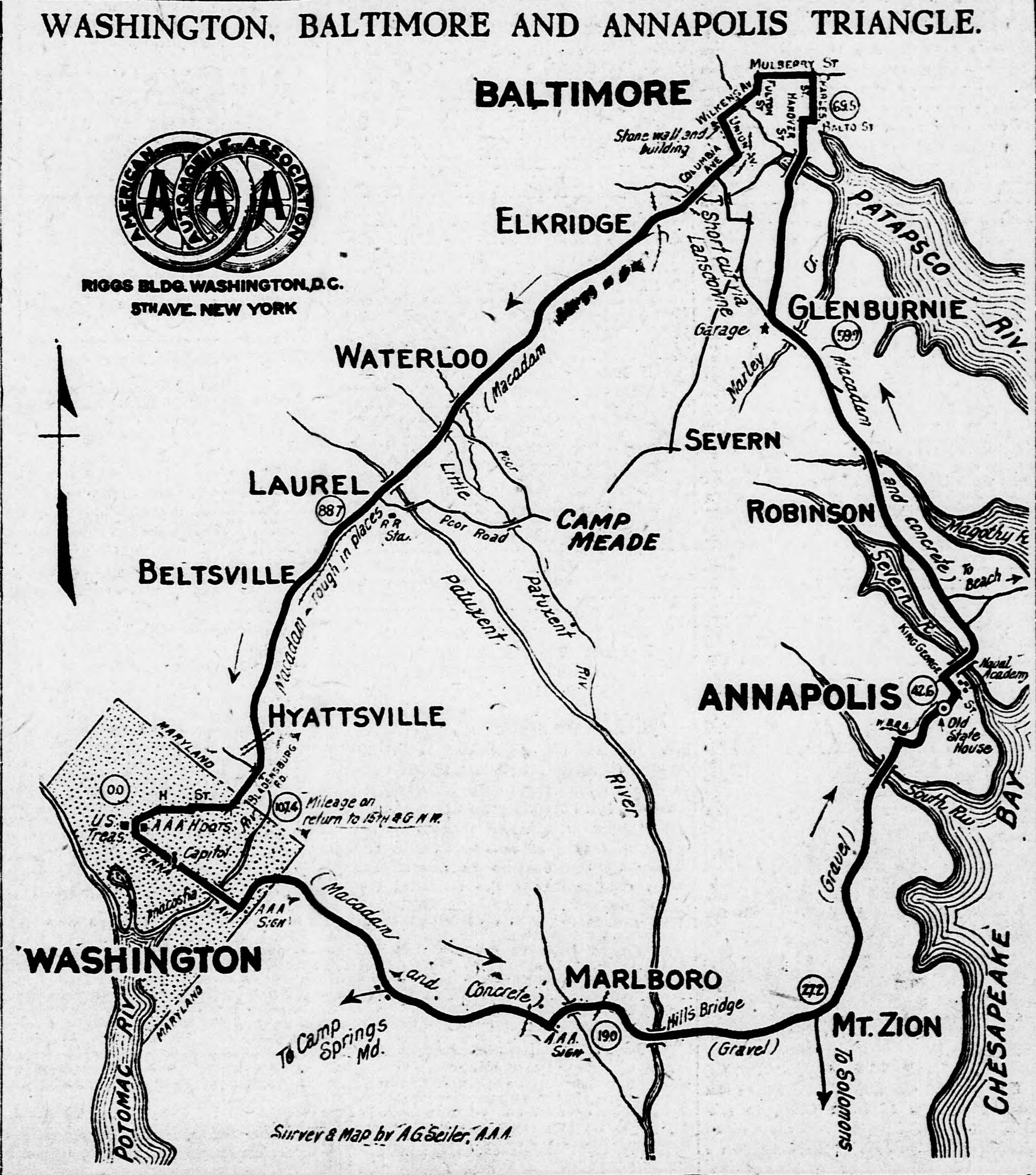 Map of the Washington Baltimore and Annapolis Triangle